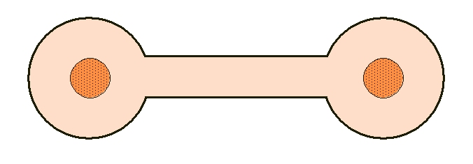 Transverse section of twin-lead cable.